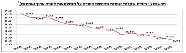 Average annual NIS interest